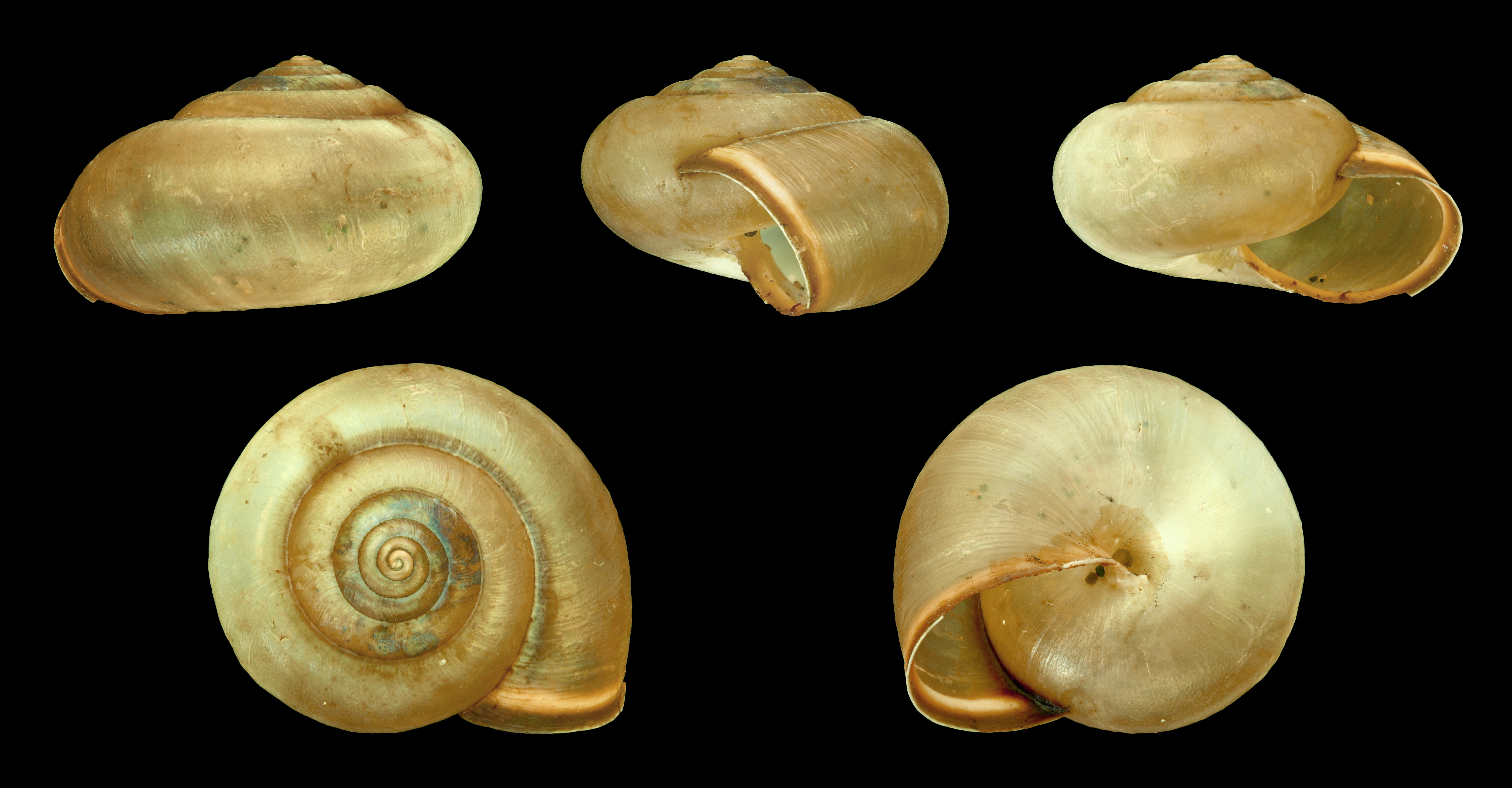 Carthusian snail; Diameter 1.6 cm; Originating from Ada-Bojana, Montenegro; Shell of own collection, therefore not geocoded.